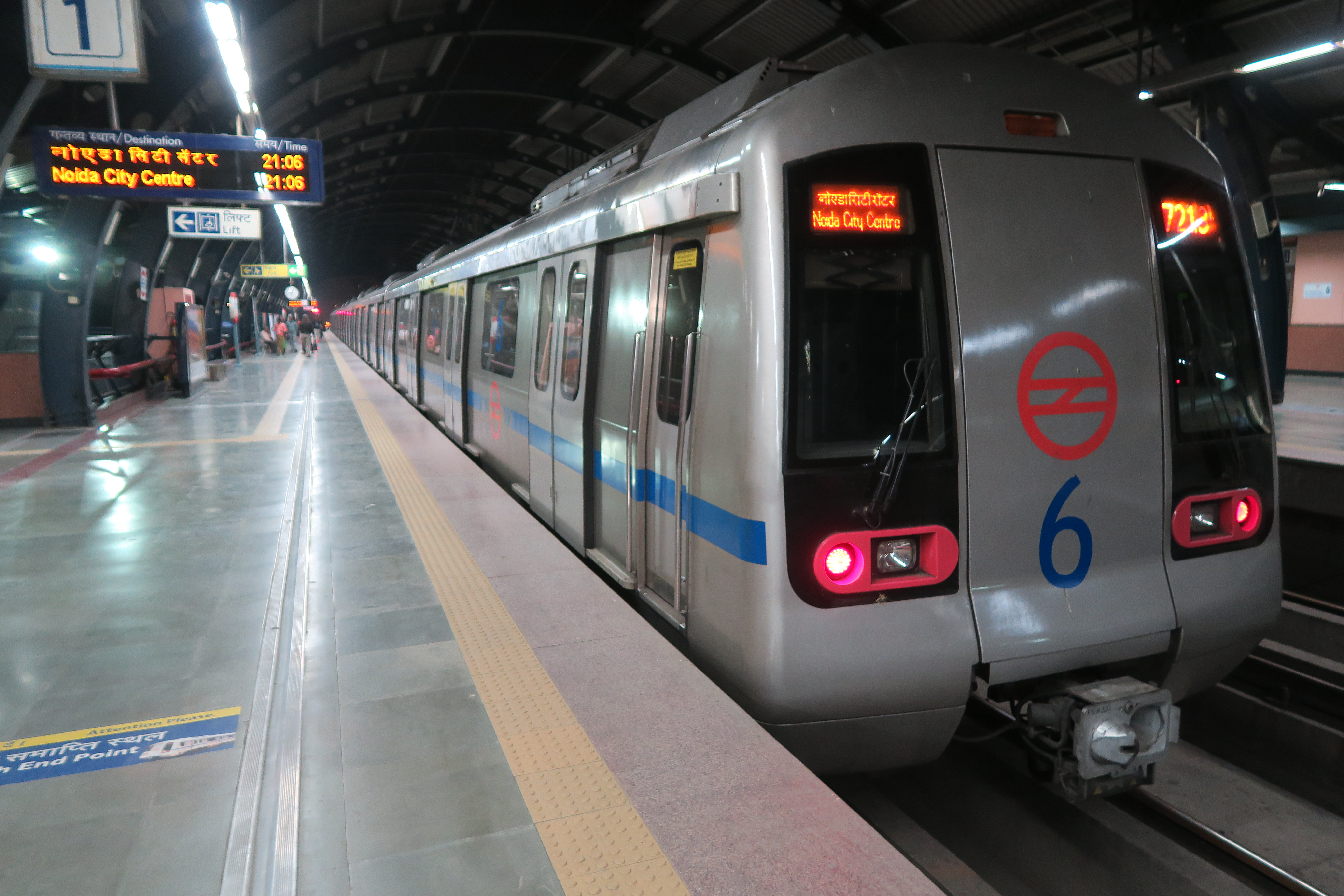 Coaches of Delhi Metro blue line manifuctured by Mitsubishi-ROTEM.